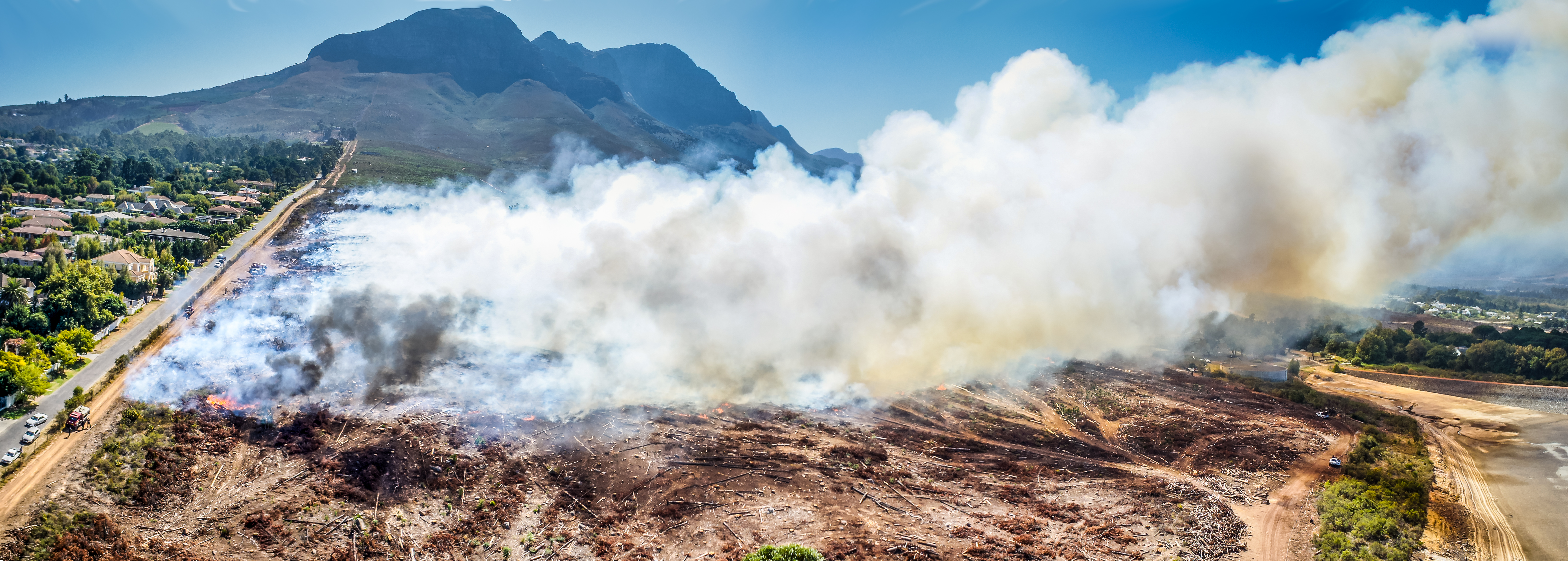 Photo-journal of restoration project's "ecological burns" at Helderberg Nature Reserve ... the message is clear "fynbos needs fire, as simple as that!" This is bewildering to some, controversial to others, yet executed in line with carefully mapped out rehabilitation plans AND providing ideal training exercises on how to work in collaboration with other fire fighting role players under controlled conditions. Information on ecology, fires, and burns: - Fire Ecology @ - Fire in South Africa @ - Fynbos Fire @ - City of Cape Town's Notice of prescribed ecological burn @ - City of Cape Town's Press release at Phase #2 "Burns" of "Reserve's Restoration Project" - read about the Restoration Project's phases: 1 "Pines" @ 2 "Burns" @ 3 "Seeds" @ "Photographic Documentary" archive collection of the 2015 Prescribed Ecological BURN project under management by the City of Cape Town (CCT): - burn #1 on 25-Feb @ - burn #2 on 31-Mar @ Video compilation @ - re-use and copyright infringement dispute on previous upload @ Key social media metadata: - hashtags: #EcologicalBurns #GoodFire #HelderbergNatureReserve - tweeters: @CityofCT @Somerset_West @vwsfires Professional service teams included: - City of Cape Town - Nature Conservation and Biodiversity Management - City of Cape Town - Fire and Rescue Service - Volunteer Wildlife Services @ - Working on Fire @ - FFA NPC / Firewise @ - Fynbos Fire @ - State Forests of the United States of America Additional footage by photographers: - David Morris assisted by Jane Theunissen @ - Tessa Oliver from FFA NPC (Firewise) with Working on Fire - Bruce Sutherland - Andreas Groenewald - Sky Pixel (aerial photography)